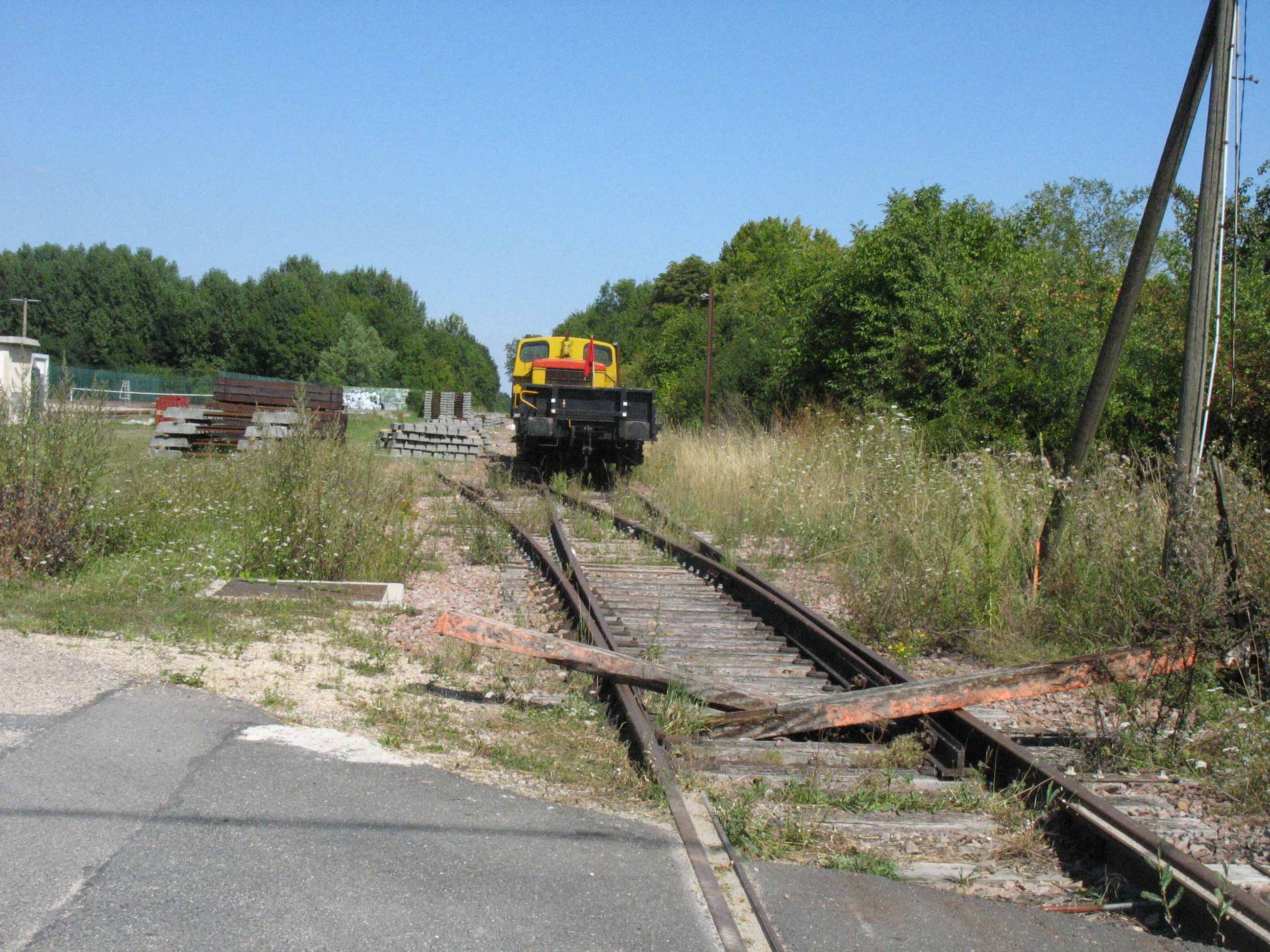 The preparation for the renovation of the line-Flamboin Montereau, at the height of the crossing of Chatenay-sur-Seine